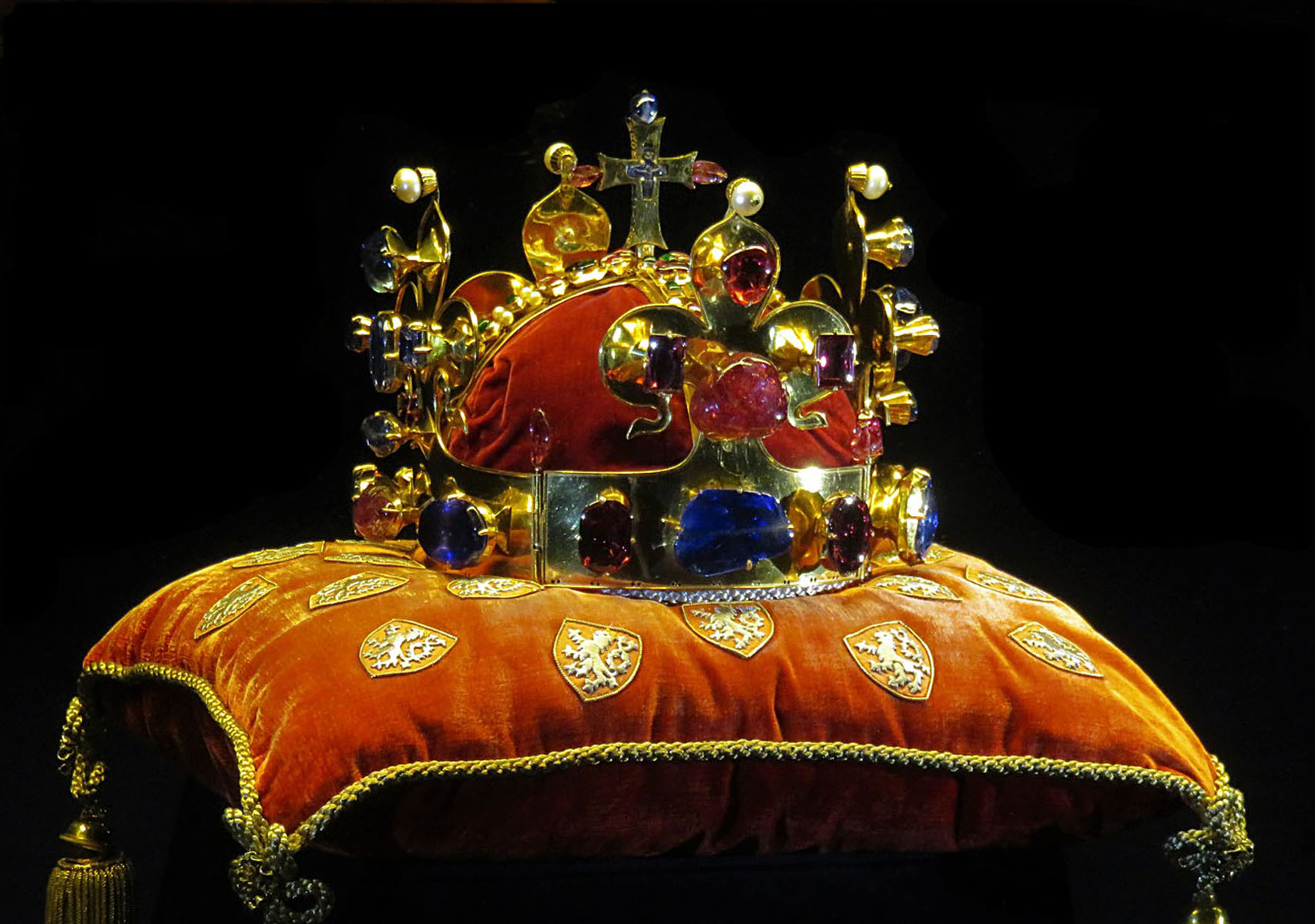 The original Crown of Saint Wenceslas during its exhibition in 2016.